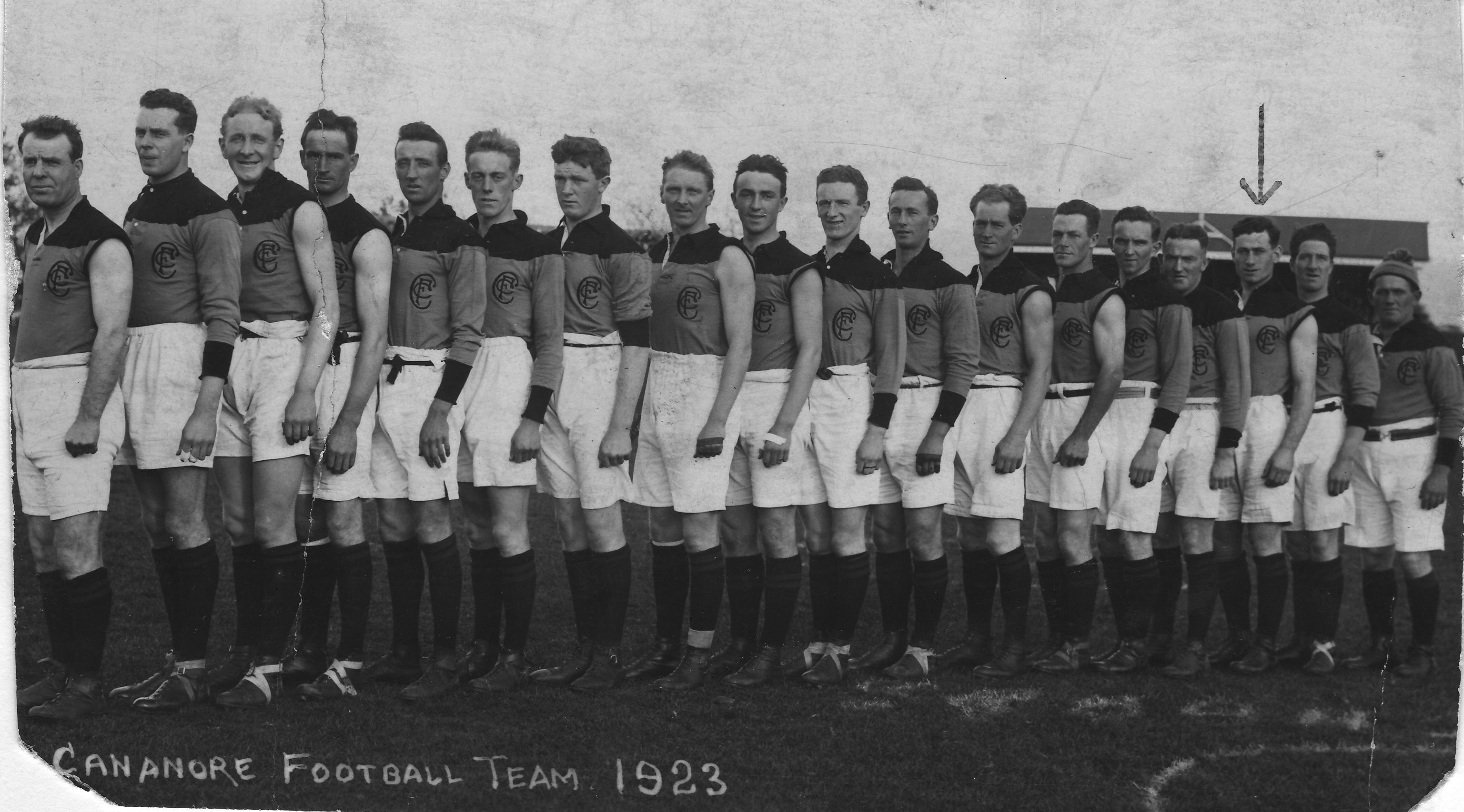 The 1923 Cananore Football Team. Edward Richard "Ted" Terry (1904-1967) is third from the right, and marked with an arrow.